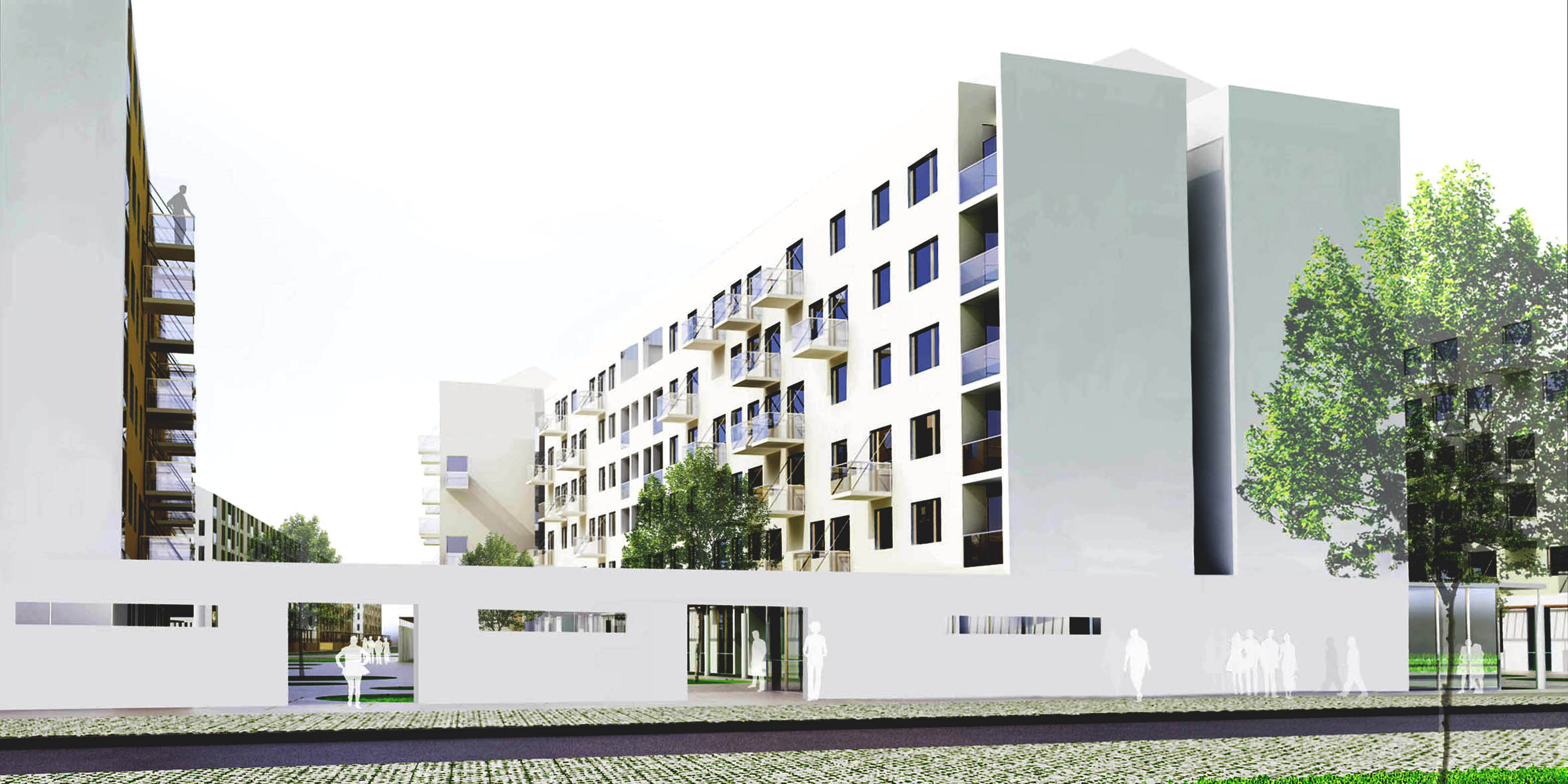 Djordje Alfirevic - Ovca Social Housing Complex